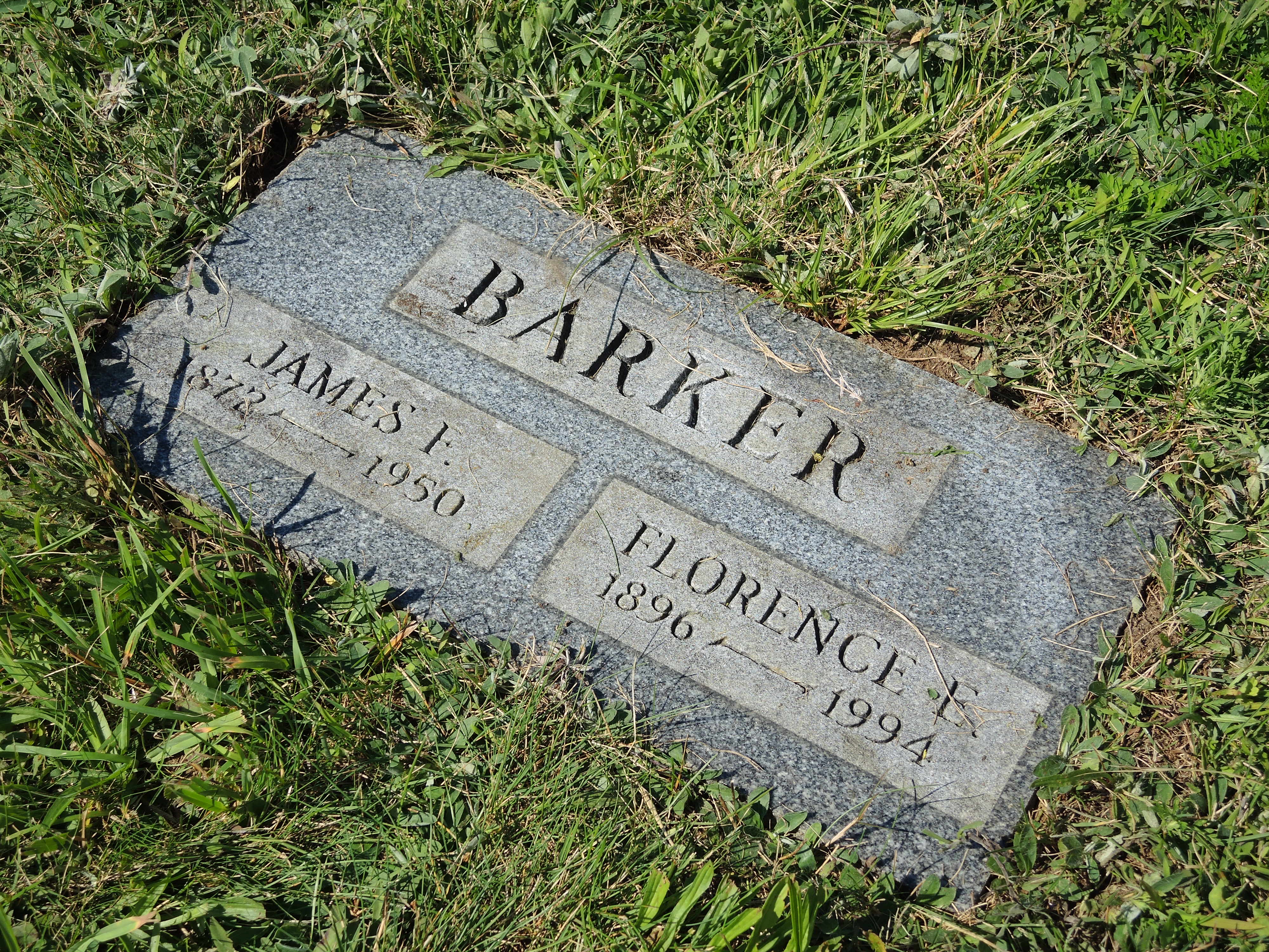 Gravestone of James and Florence Barker, located in section FF of on Nantucket. Uploaded from the Nantucket Atheneum